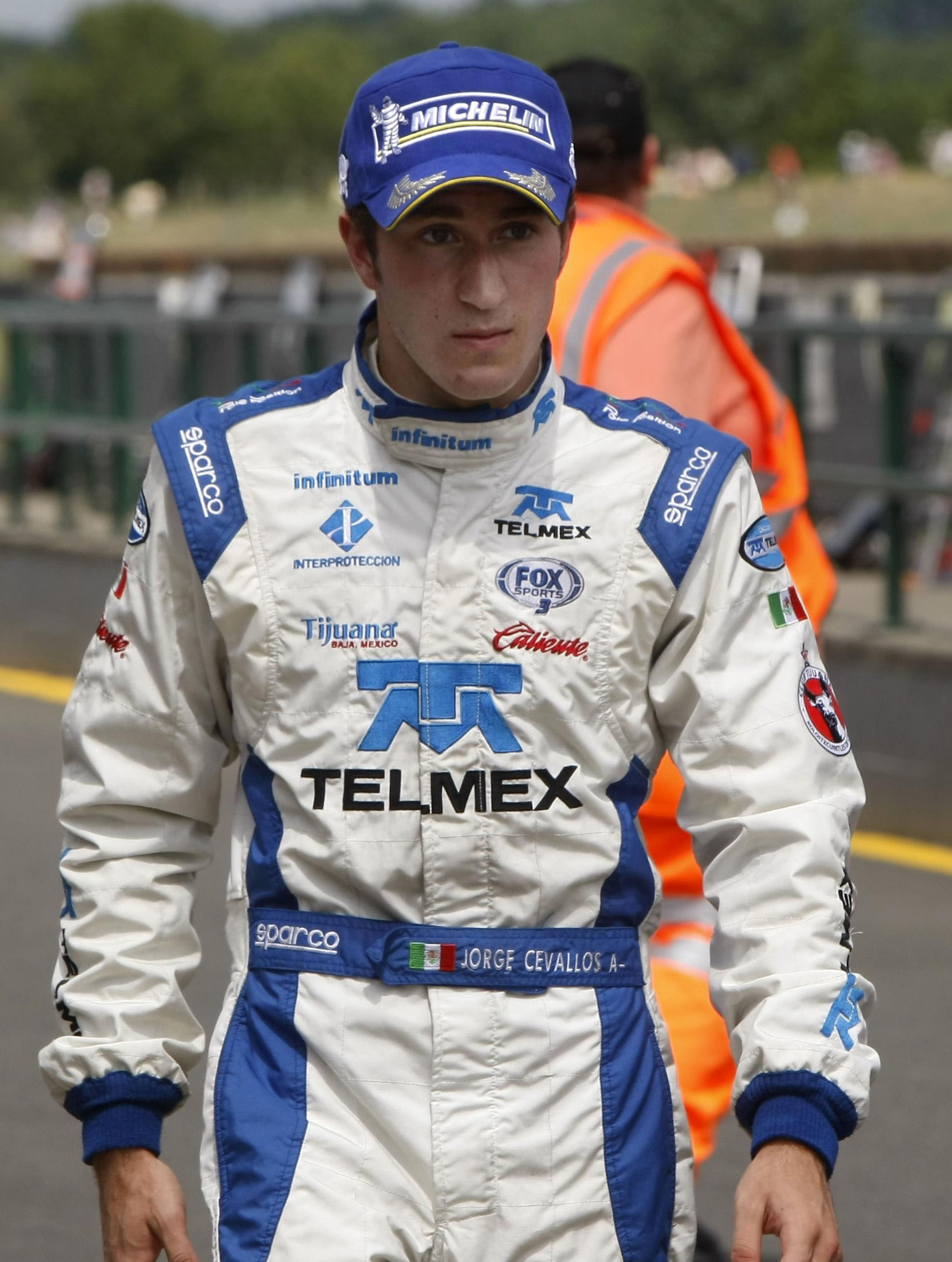 Jorge Cevallos Saad es un piloto profesional tijuanense de autos tipo fórmula.